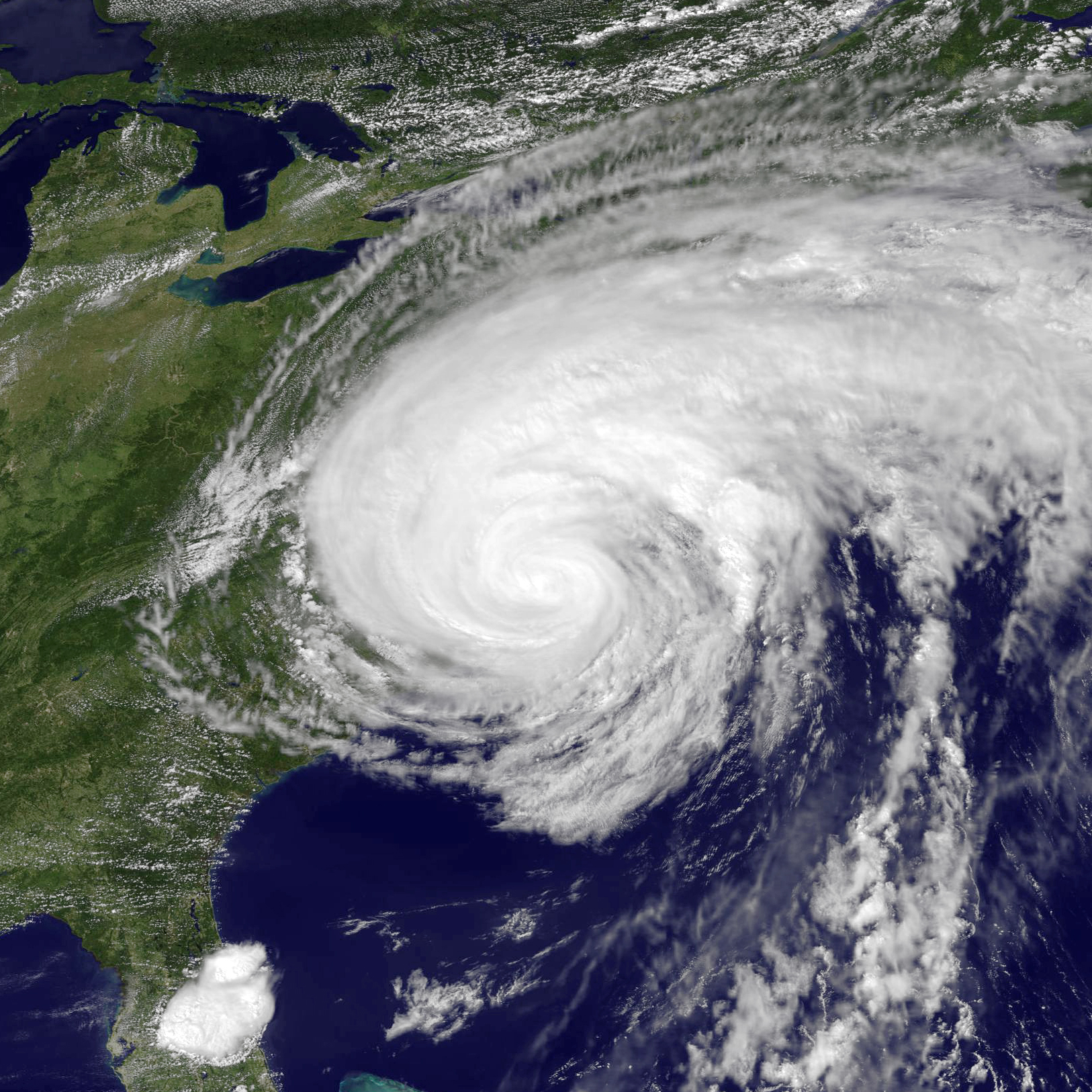 Hurricane Irene is currently located over the eastern coast of North Carolina as a category one storm as shown above on August 27, 2011.